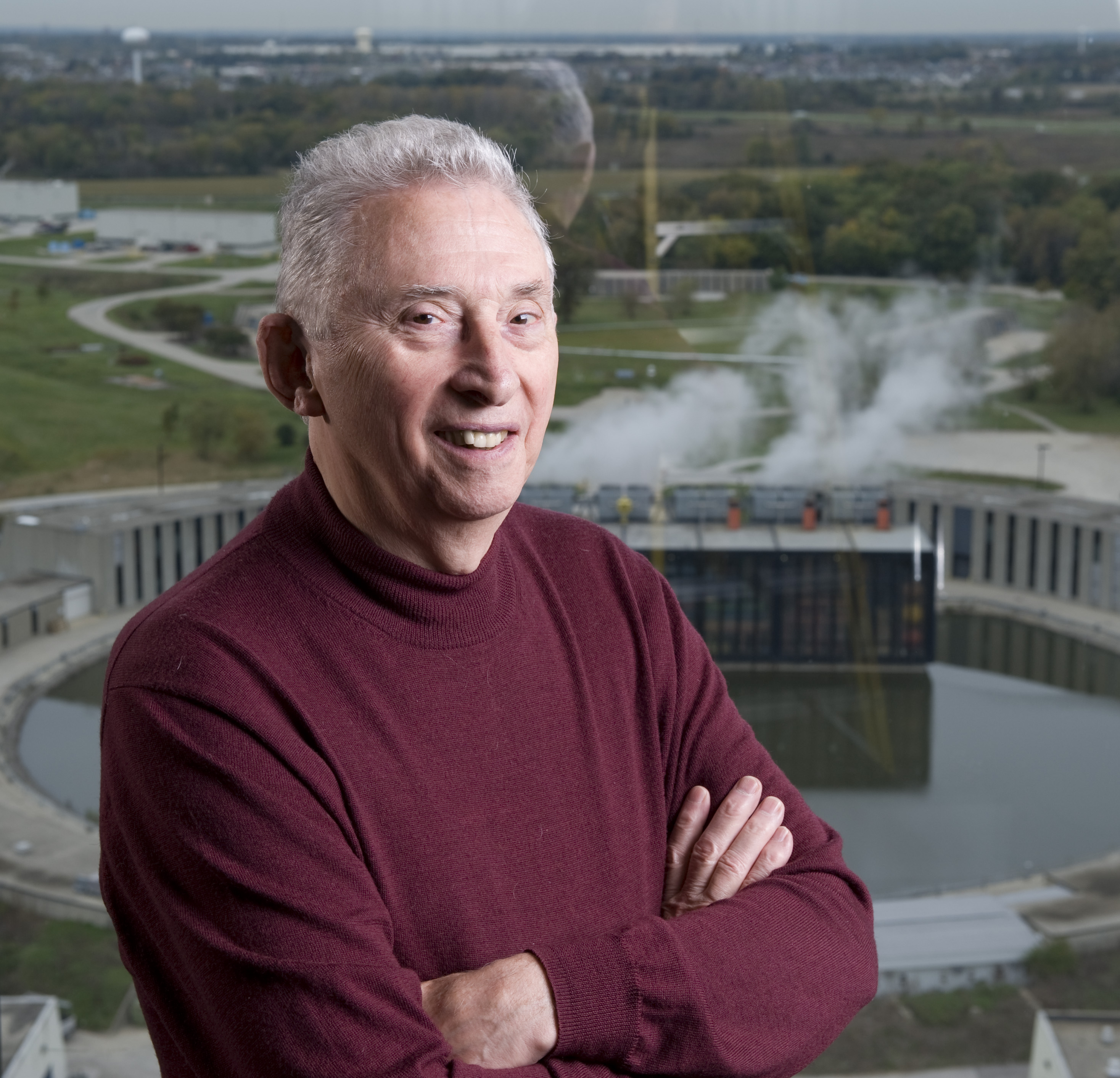 John Peoples, Jr. Director of Fermilab from 1989 to 1999.